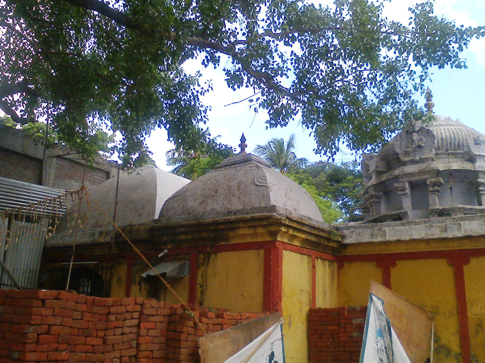 Kumbakonam Hajjiar Street Draupathyகும்பகோணம் ஹாஜியர் தெரு திரௌபதியம்மன் கோயில்